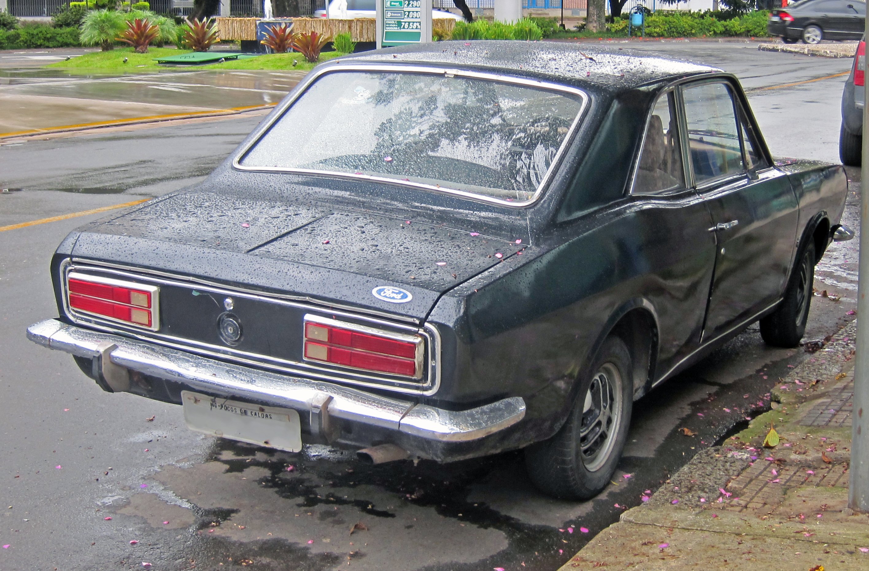 Facelifted first generation Ford Corcel in Poços de Caldas, Brazil